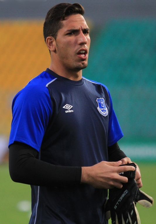 Joel Robles with Everton FC